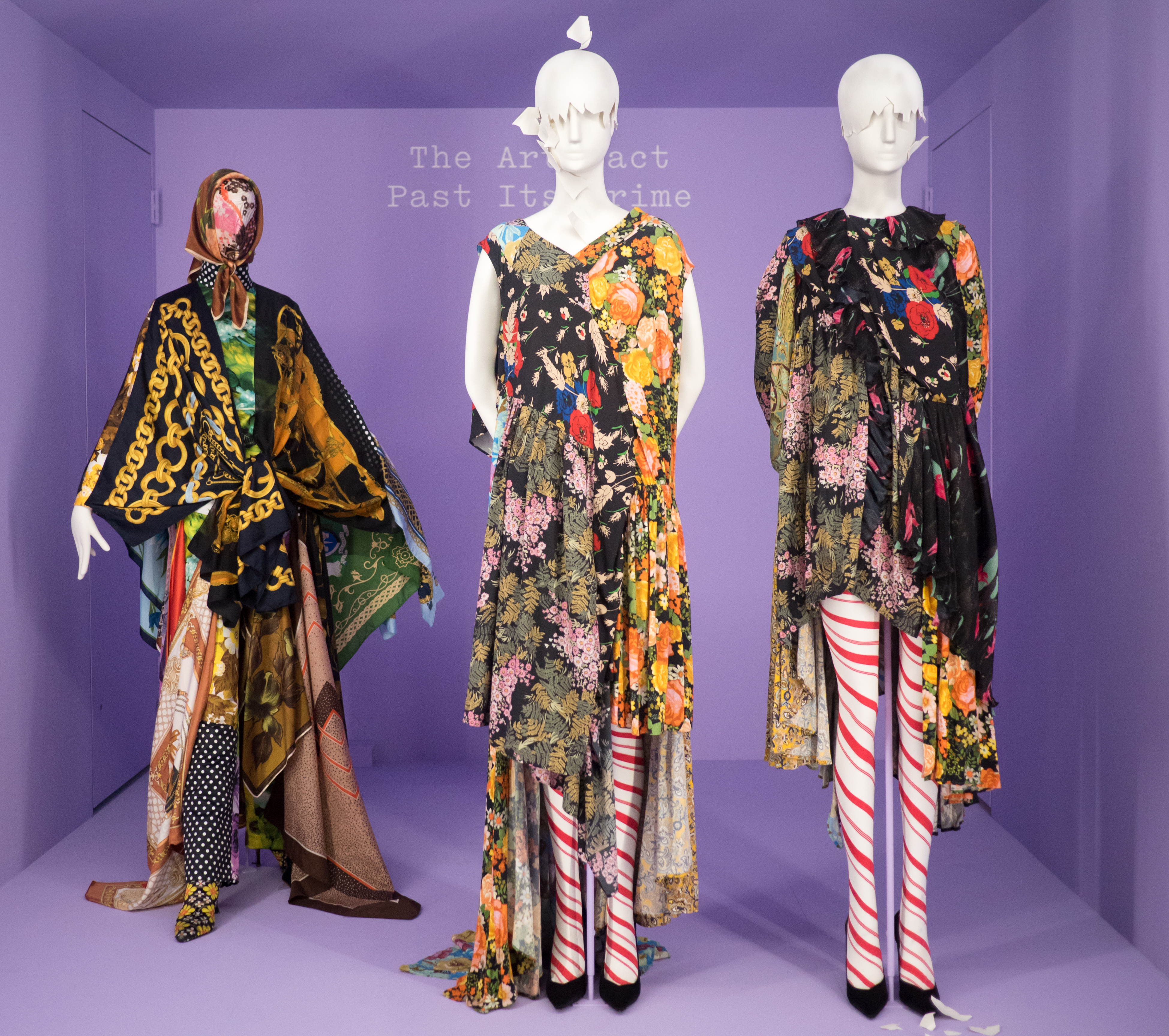 Right by Demna Gvasalia for the House of Balenciaga, autumn/winter 2016-17.Camp: Notes on Fashion exhibit at the Met